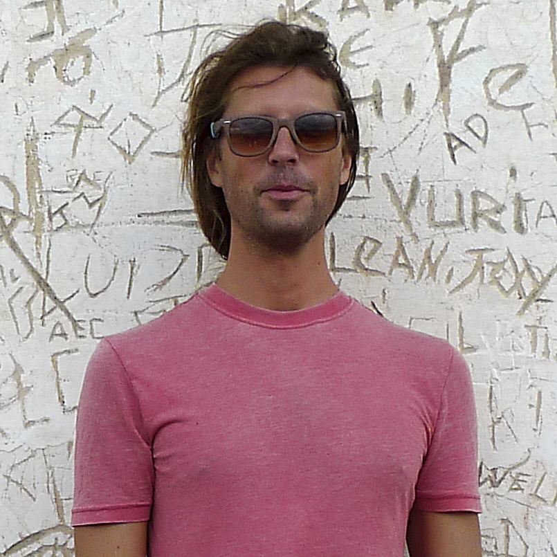 portrait